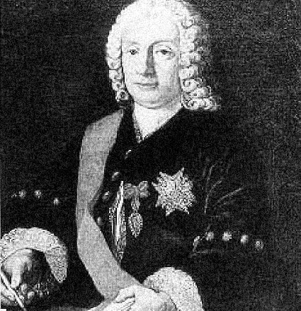 Sebastian de la Cuadra. Primer Marqués de Villarías